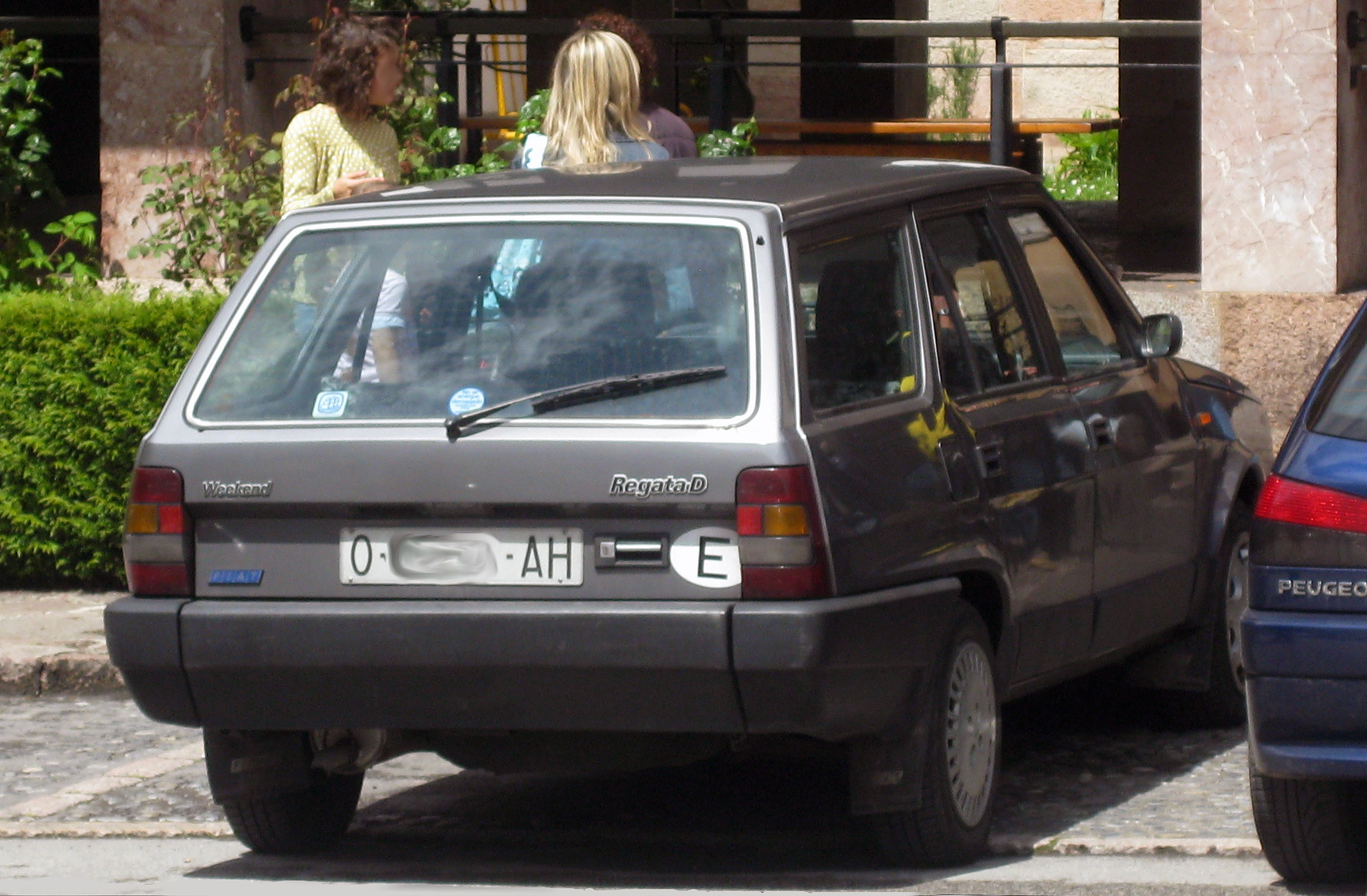 Sooooooooooooooo rare to find one of these nowadays, it's easier as a sedan but definetly not as a wagon. It had a 1986 plate from Oviedo (Asturias), it was spotted in Covadonga (Asturias).